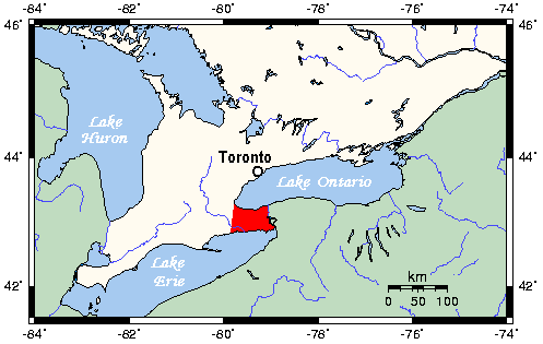 Map of Southern Ontario showing the Niagara region in red. This map's source is here, and the GMT homepage says that the tools are released under the GNU General Public License.